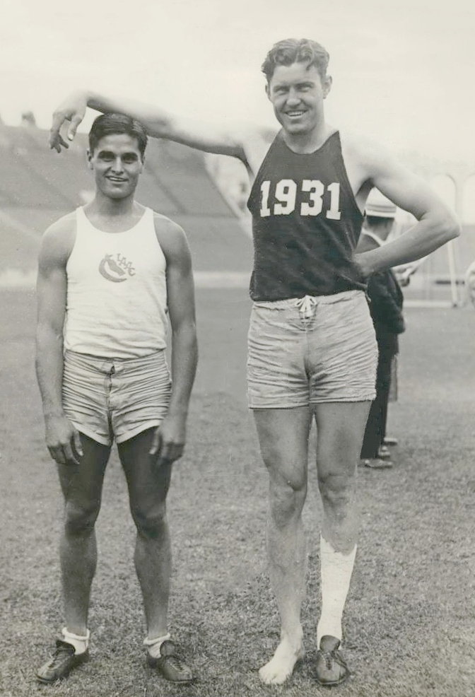 1928 Press Photo Al Le Febvre, Jim Stewart at Southwest Olympic Decathlon Tryout